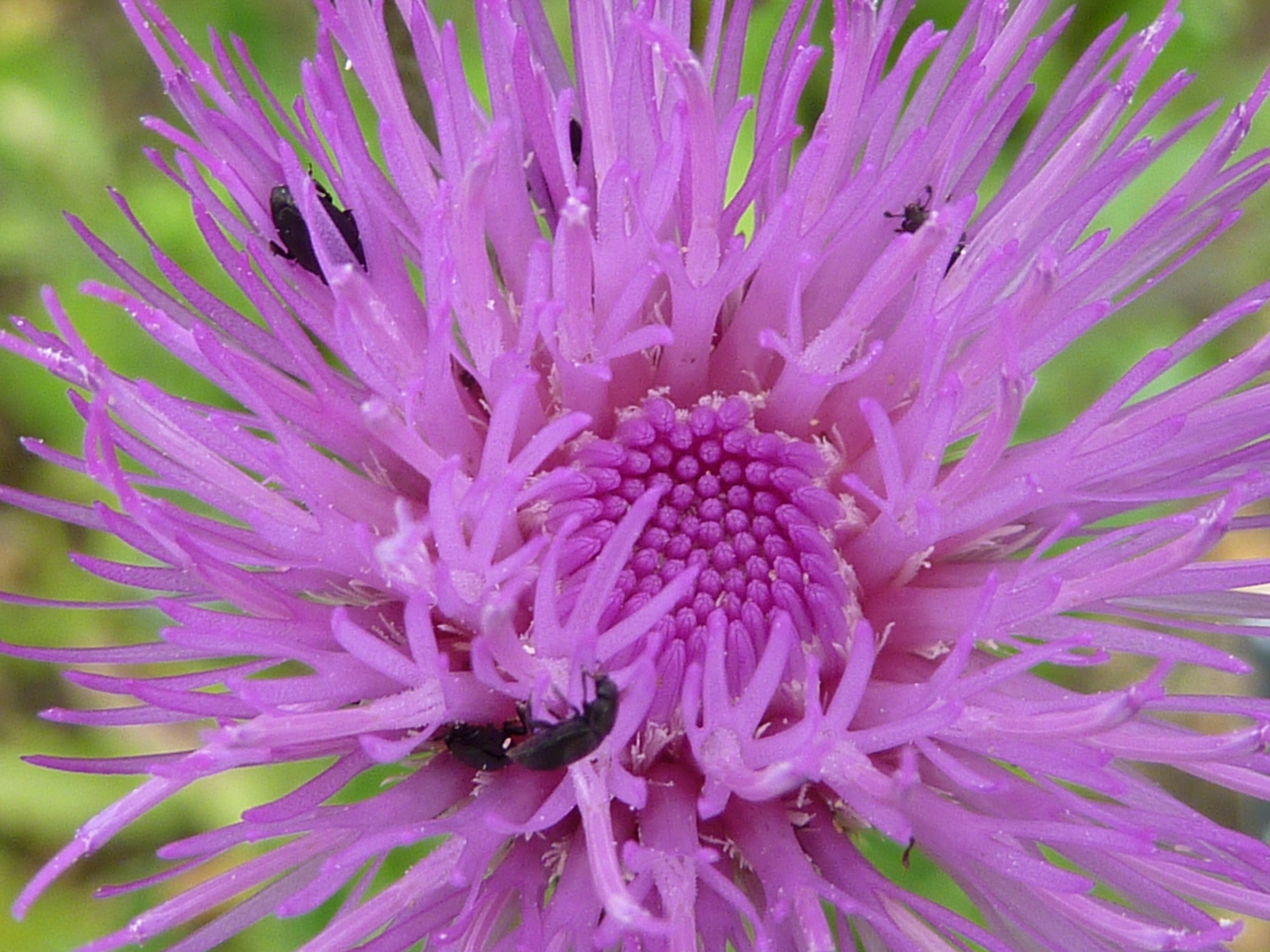 Cirsium canum, Cambridge University Botanic Garden